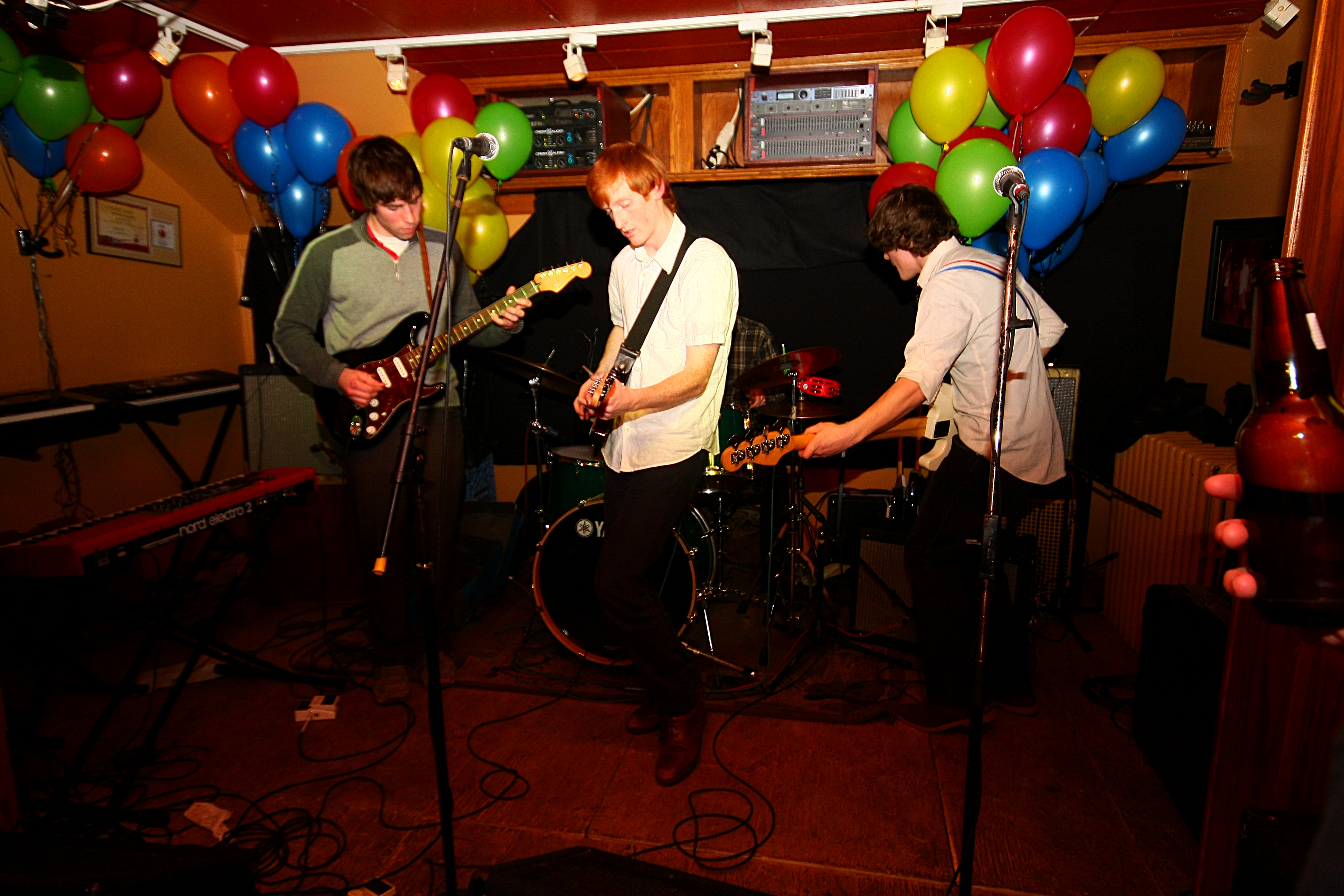 Canadian band Boxer the Horse playing in Charlottetown, Prince Edward Island on January 15, 2010.